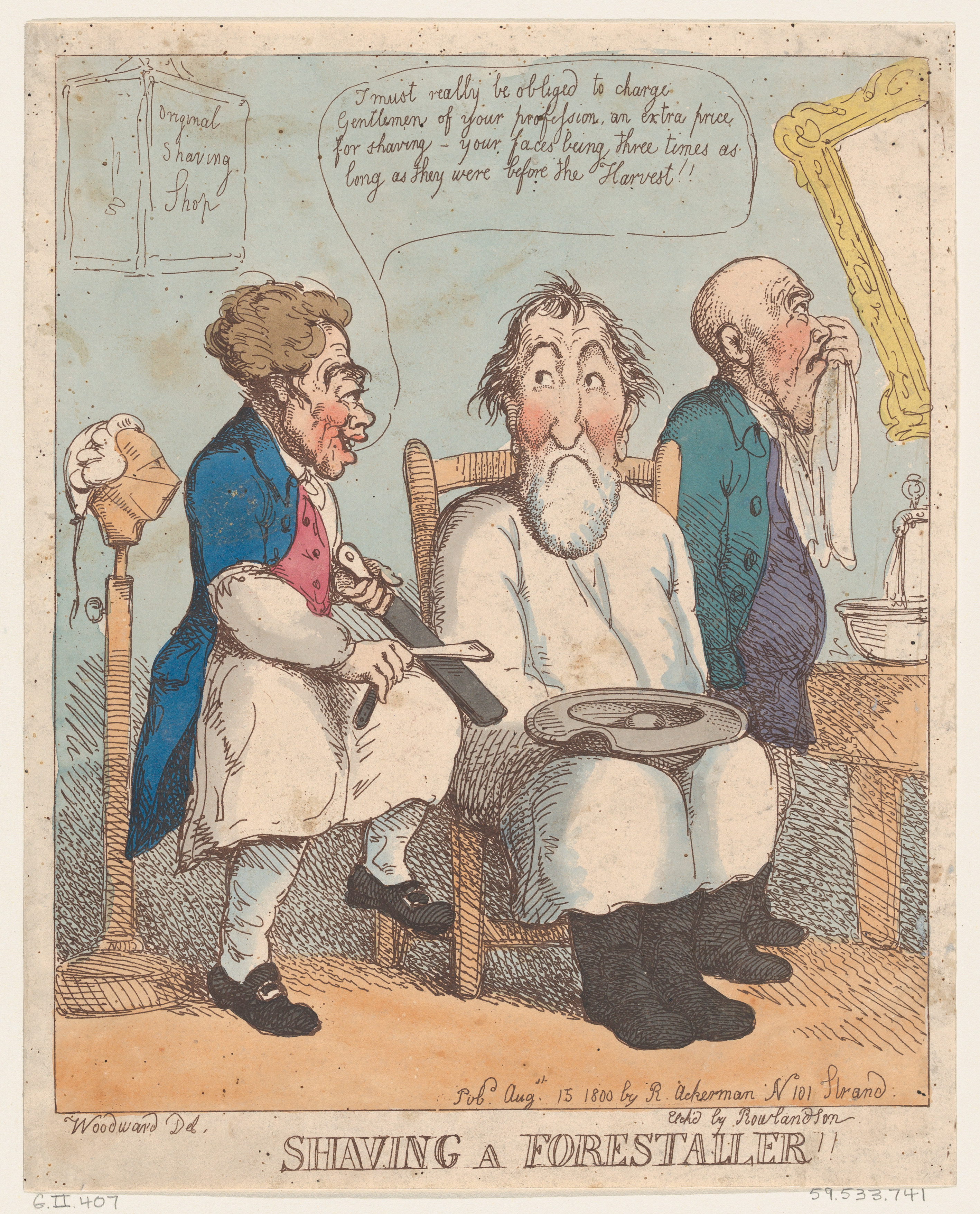 Print; Prints